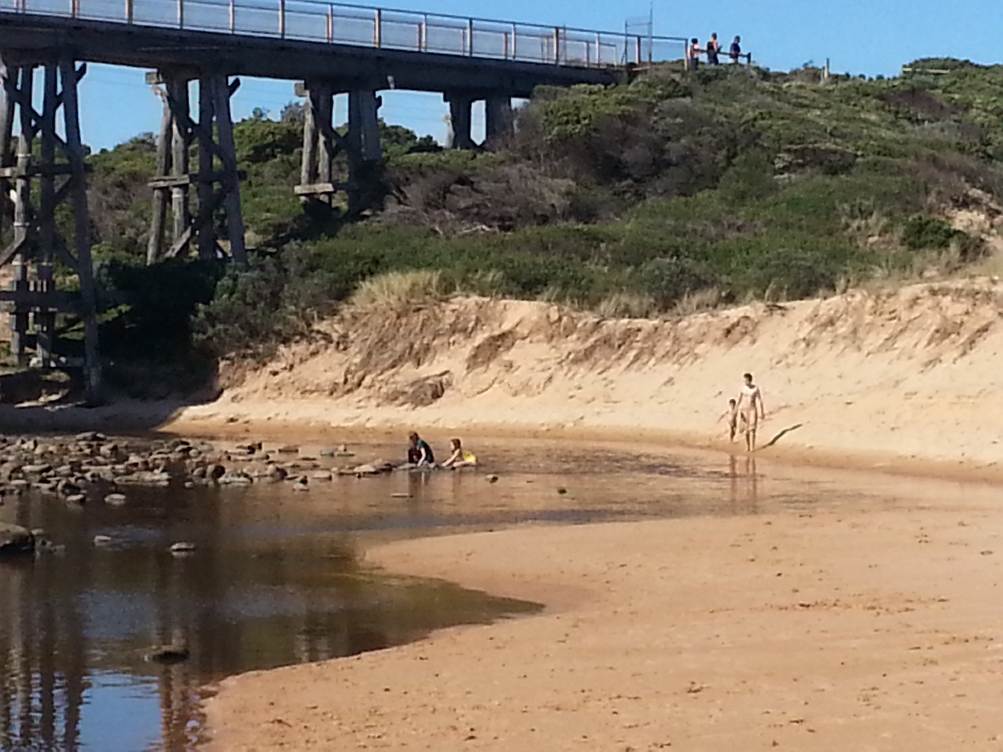 Porters swimming at Kilcunda beach and trestle bridge, Kilcunda, Victoria, Australia